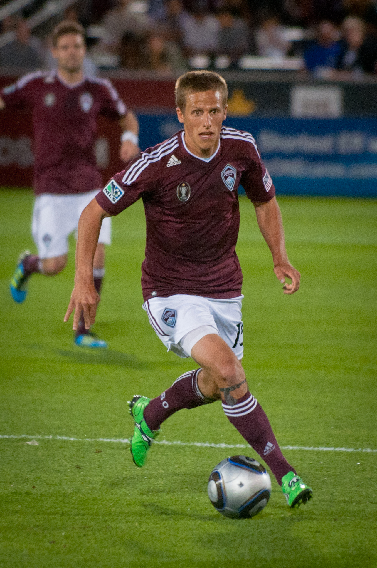 Wells Thompson from the Colorado Rapids.